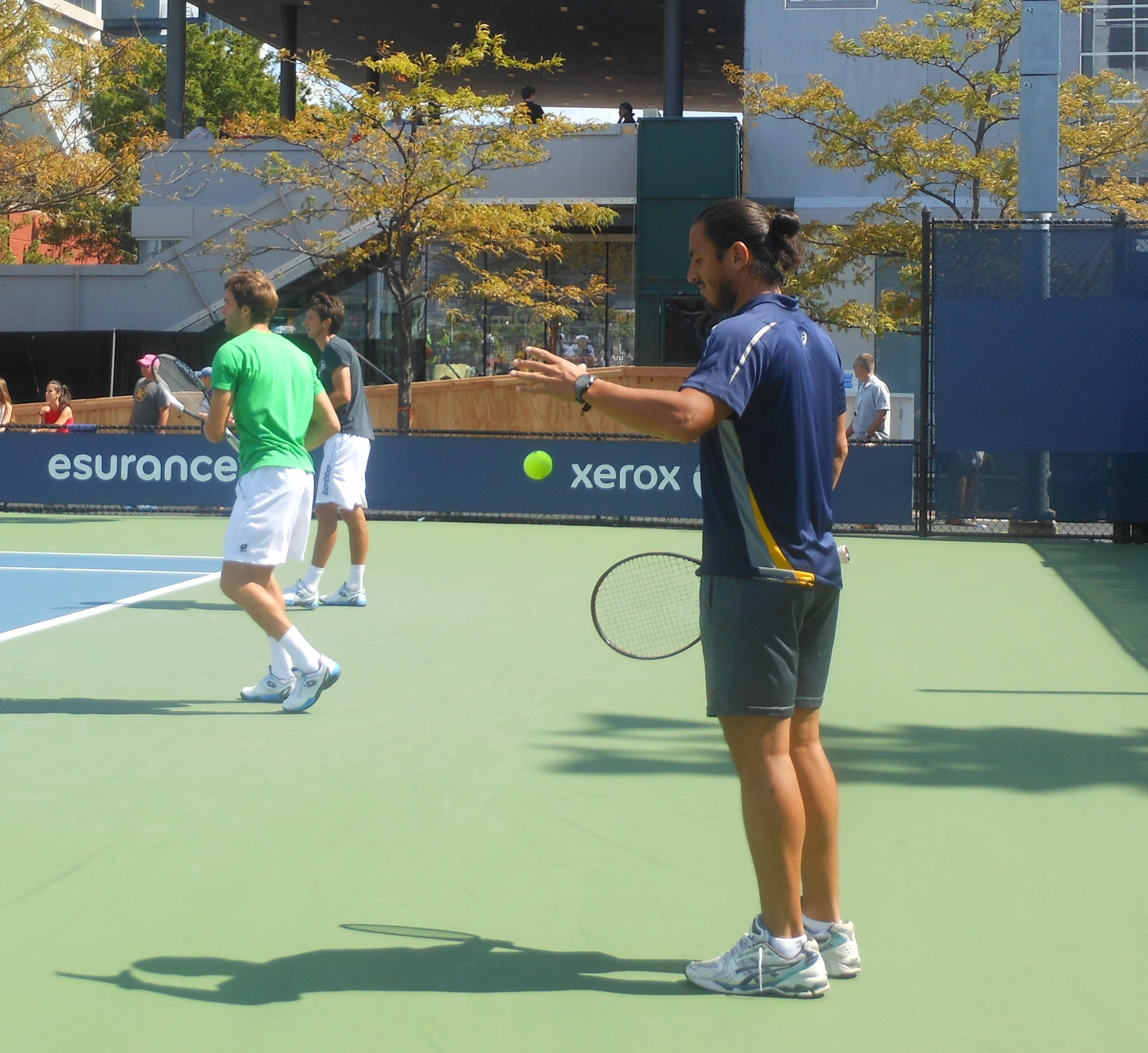 Guillermo Canas coaching at the US Open